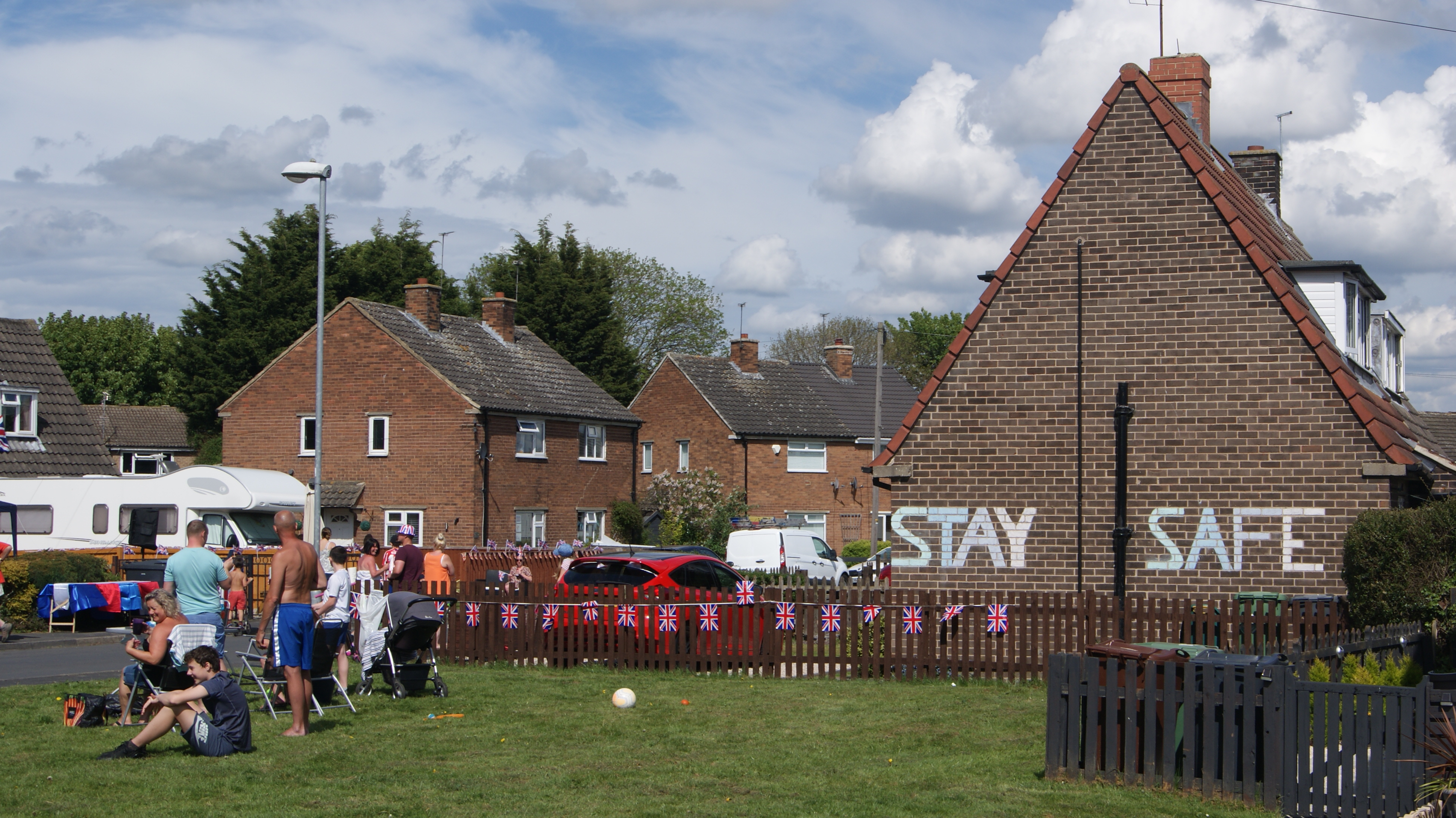 Socially distanced street party for the 75th Anniversary of VE Day, Montagu Road, Wetherby, West Yorkshire. Taken on the afternoon of bank holiday Friday the 8th of May 2020.